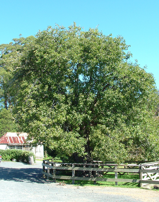 New Zealand's oldest fruit tree, a pear (pyrus communis) planted in 1819 at Kerikeri. It is still fruiting profusely. The building at the rear is the historic blacksmith shop.